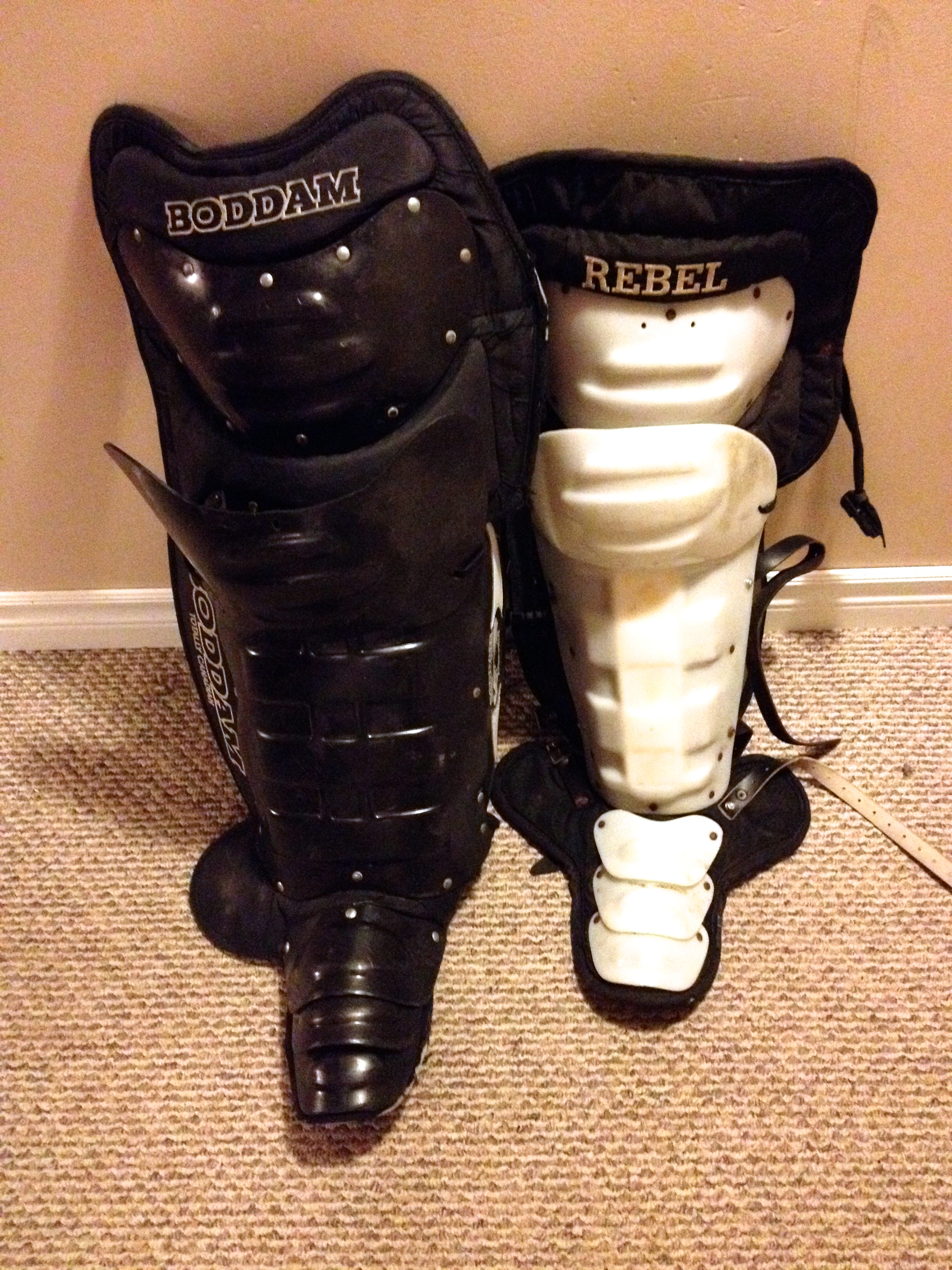 Box lacrosse legs guards or irons.